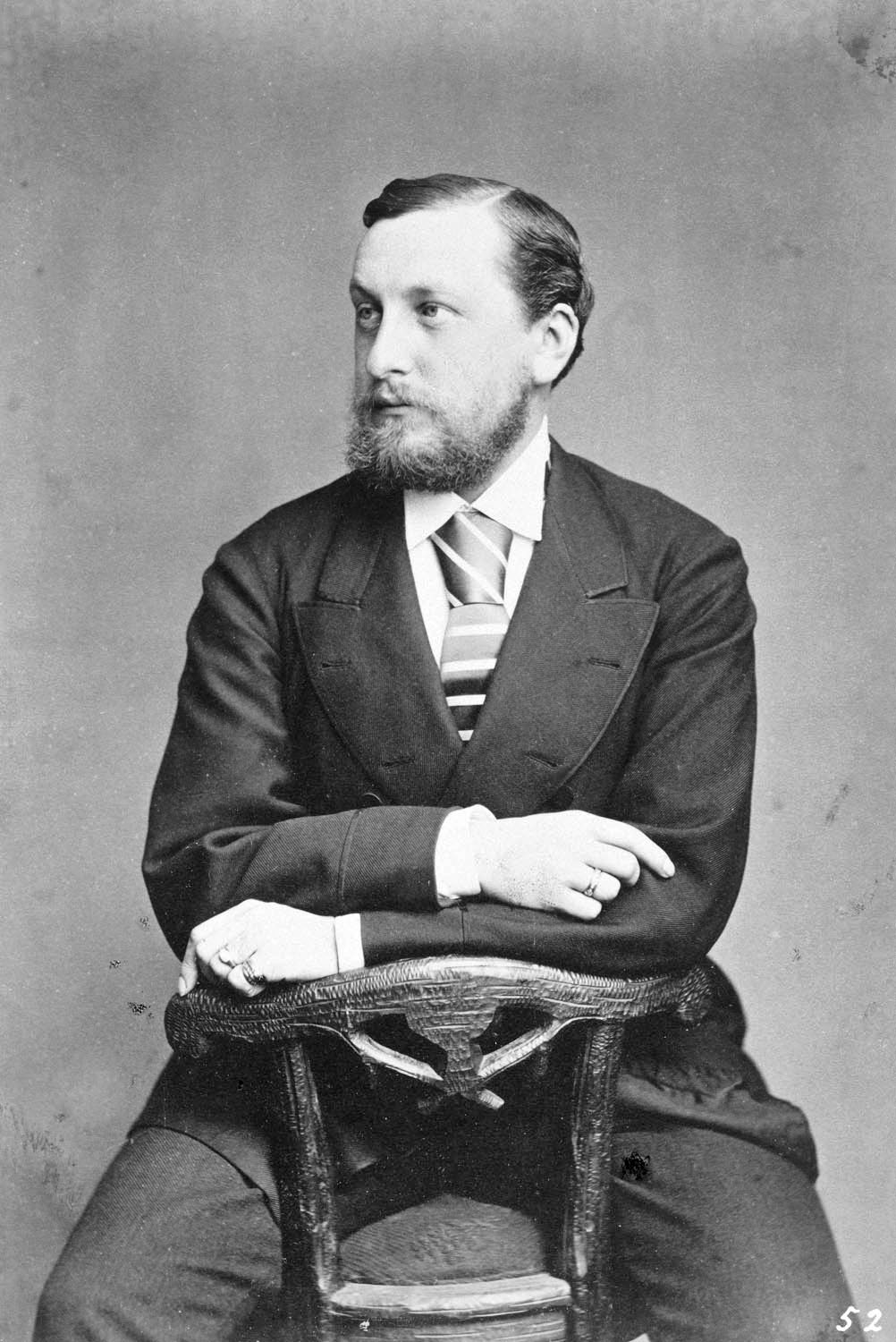 Gustav, 1st Prince and Count of Erbach Schonberg